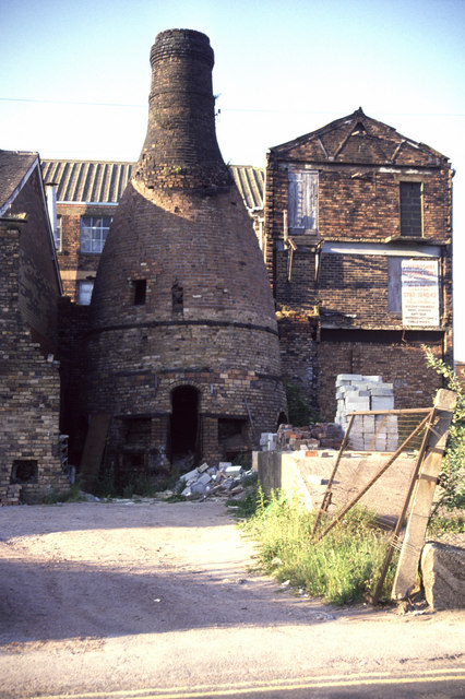 Bottle oven, Minkstone Works, Longton All the surviving bottle ovens are now listed. At least one has been lost since 1989 (Fountain place Works, Burslem).